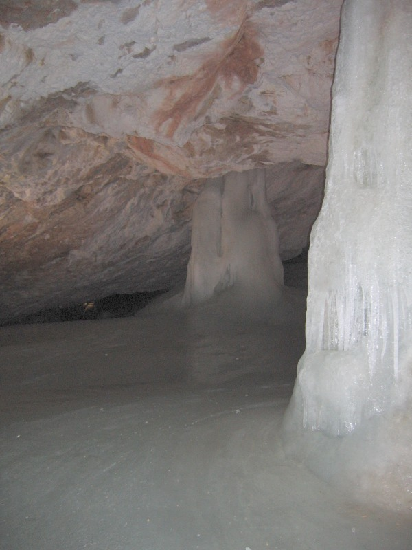 Dobšínska ľadová cave, Slovakia